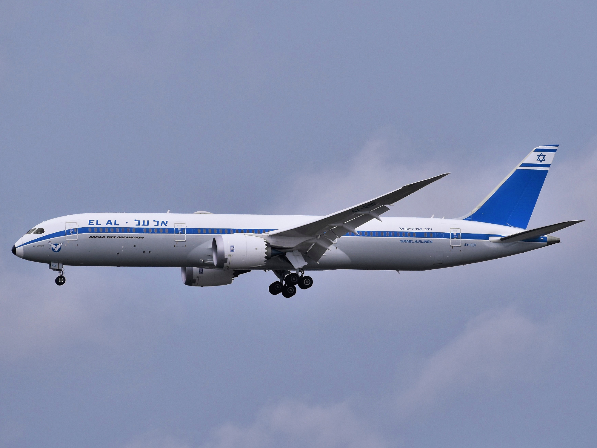 An El Al Israel Airlines Boeing 787-9 Dreamliner is on final approach to John F. Kennedy International Airport. This aircraft wears a 1960s era retro livery.